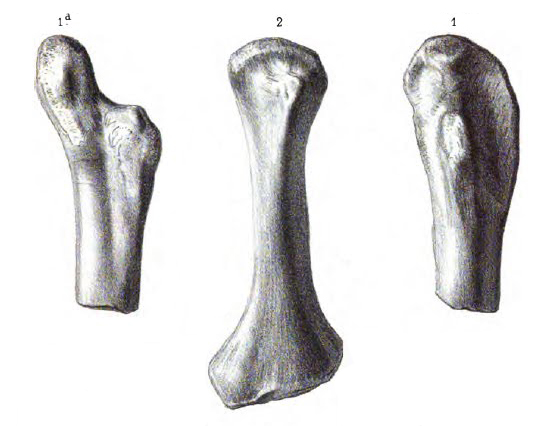 Amniote humerus originally referred to Actiosaurus in anterior view (2). Figures 1 and 2 after Sauvage (1883).